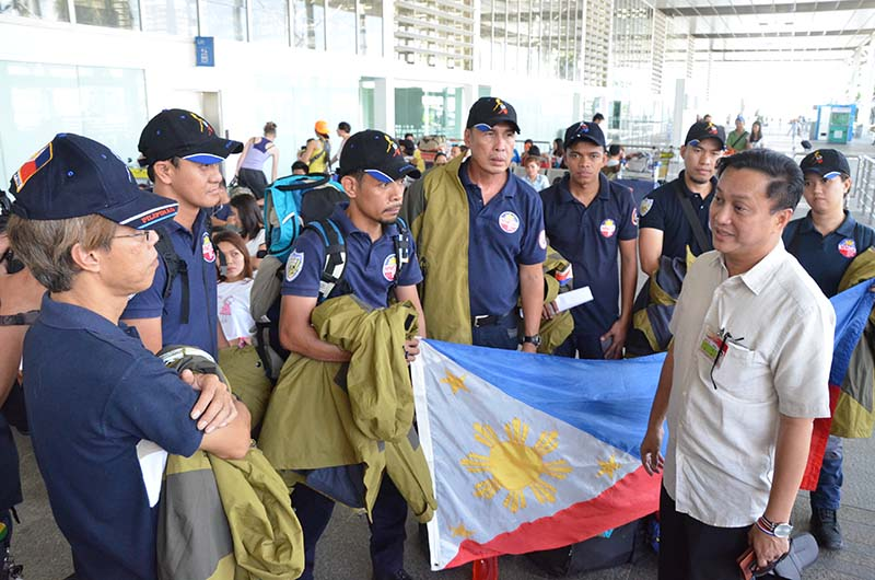 MMDA Probe and Retrieval Team Send Off to Kathmandu, Nepal. With MMDA chairman Francis Tolentino